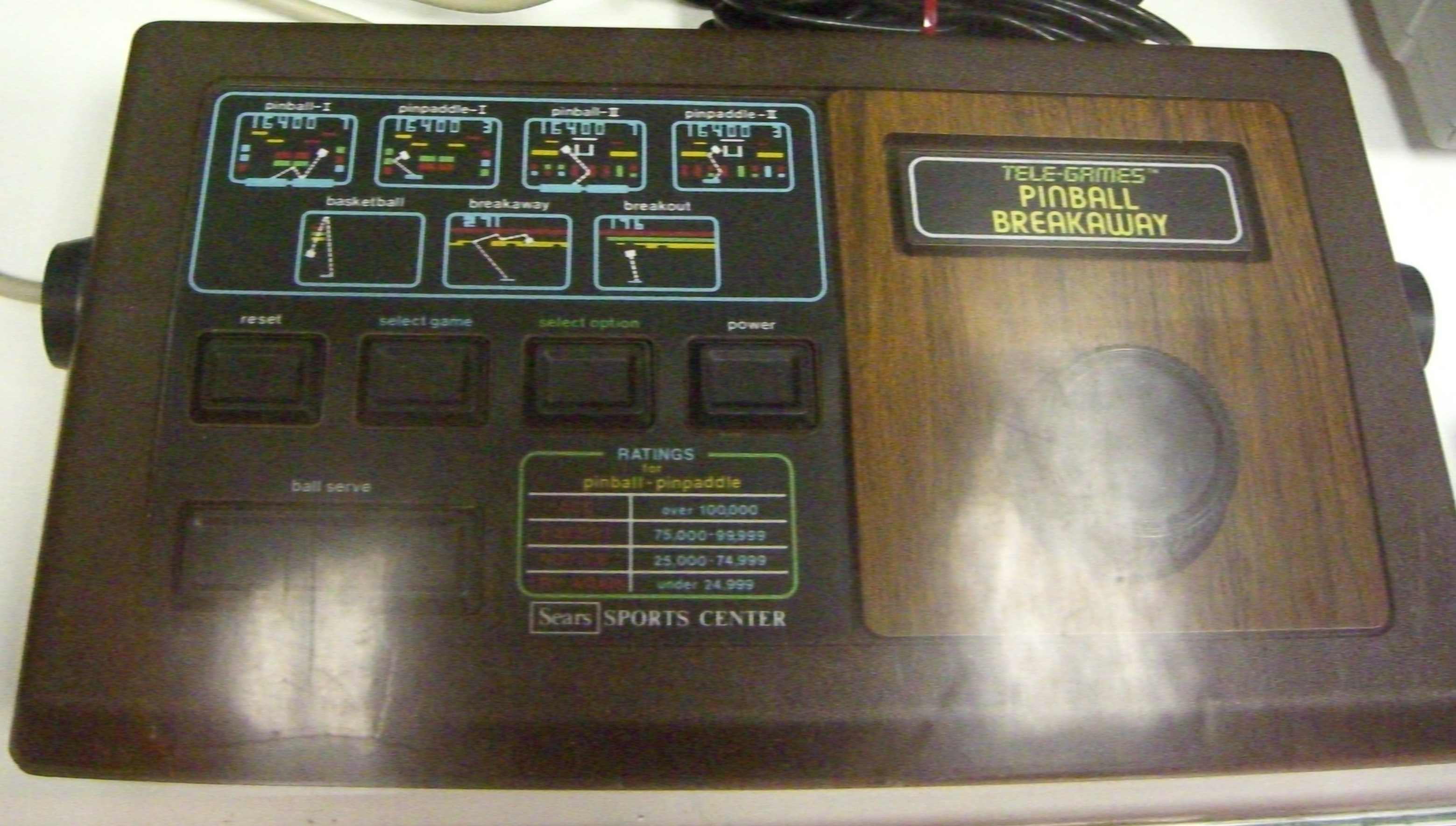 Sears Pinball Breakaway (model 99713). Atari Video Pinball rebranded Pong console.